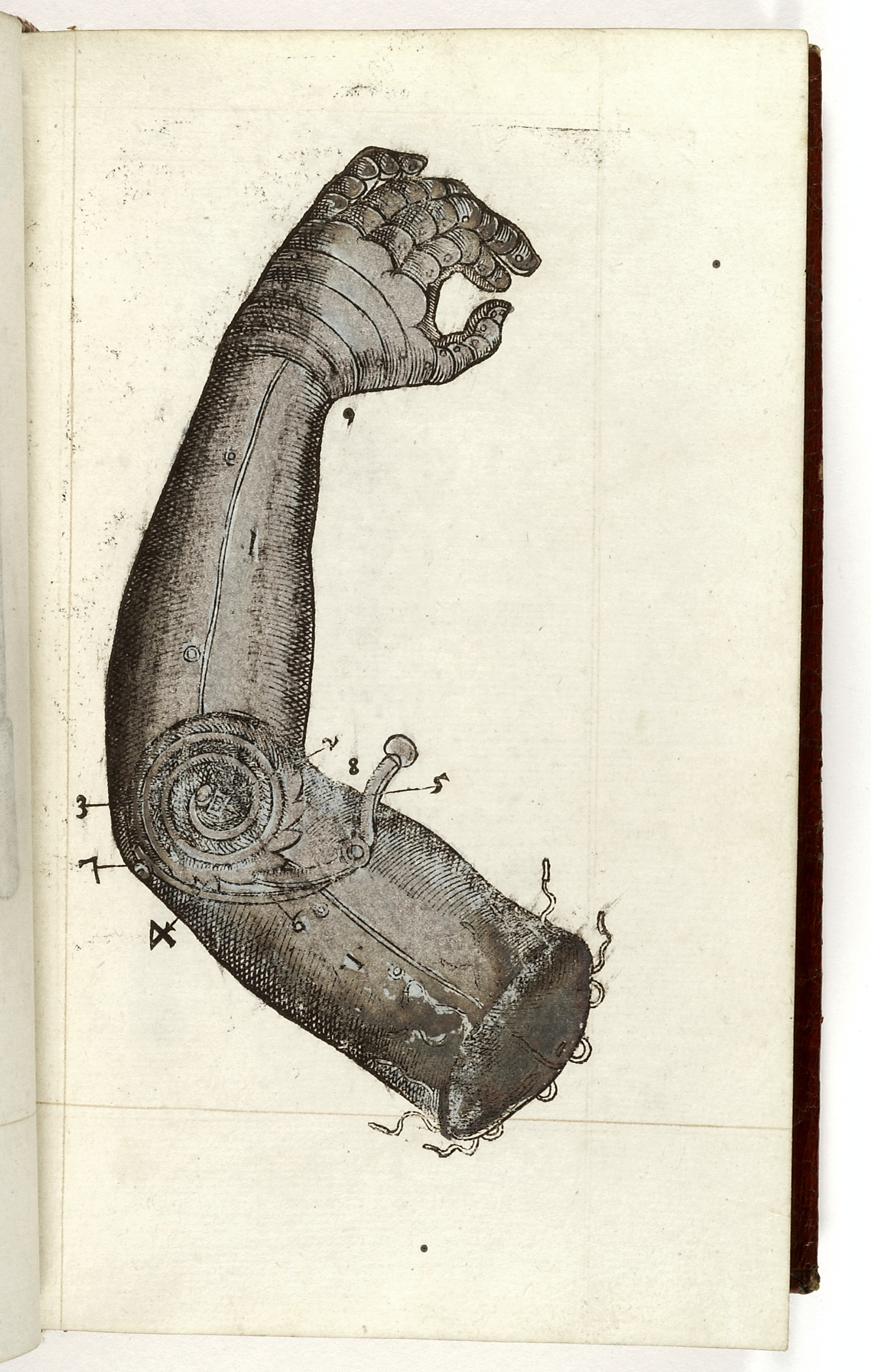 Illustration of mechanical arm Rare Books Keywords: Anatomy; Ambroise Paré; Surgical Instruments